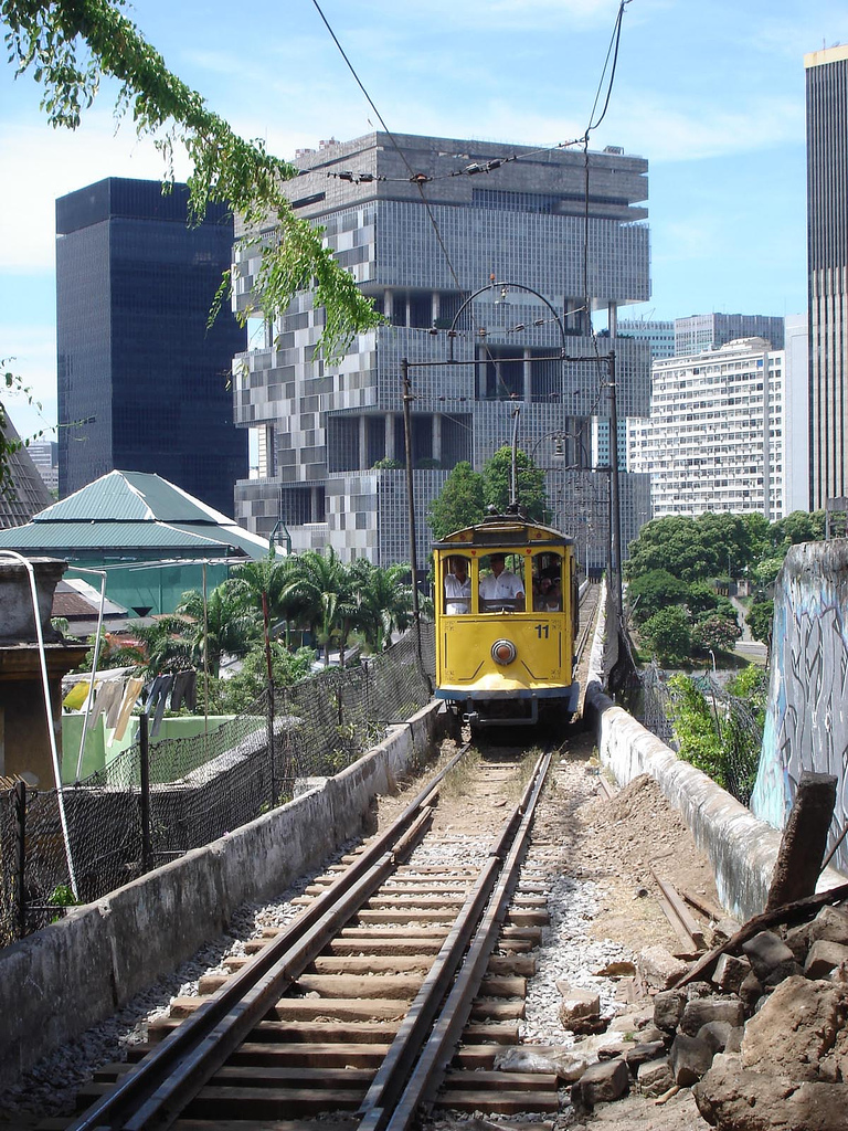 Tram 11 of Rio de Janeiro's Santa Teresa tramway at the south end of the Carioca Aqueduct (or Arcos da Lapa), the line's famous viaduct, on a southbound/outbound trip. The city center is in the background.